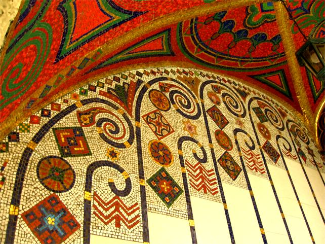 The mosaic on the Primavesi Villa stairs in Olomouc, the Czech Republic